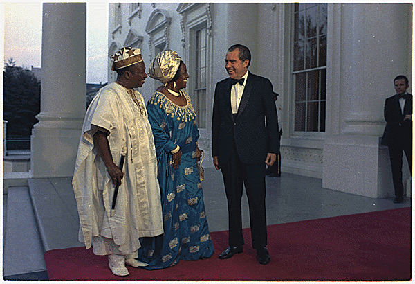 Arrival of William Tolbert, Jr., President of Liberia, 06/05/1973